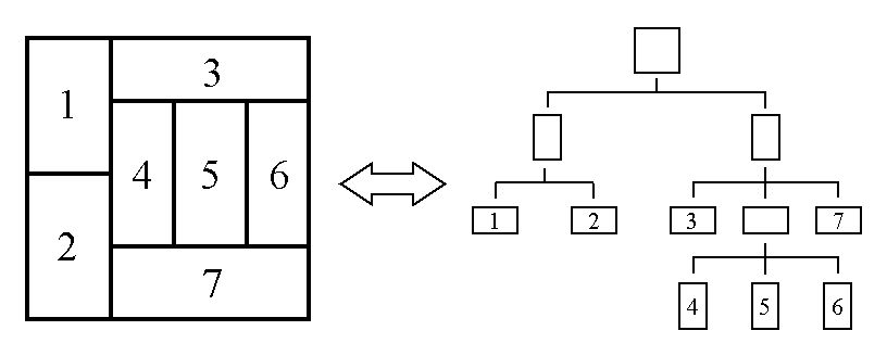 Otten's Slicing structure.